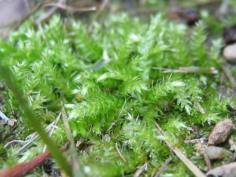 Moos Brachythecium rutabulum